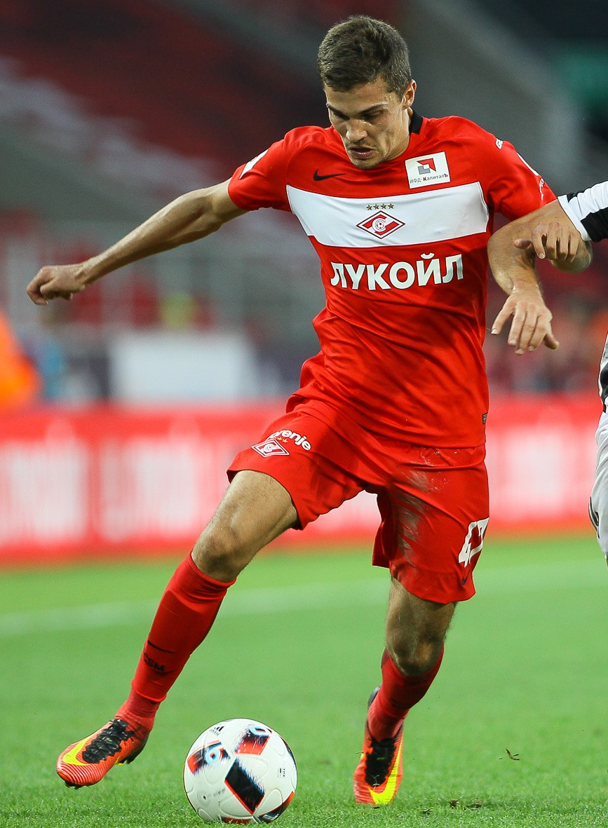 Roman Zobnin